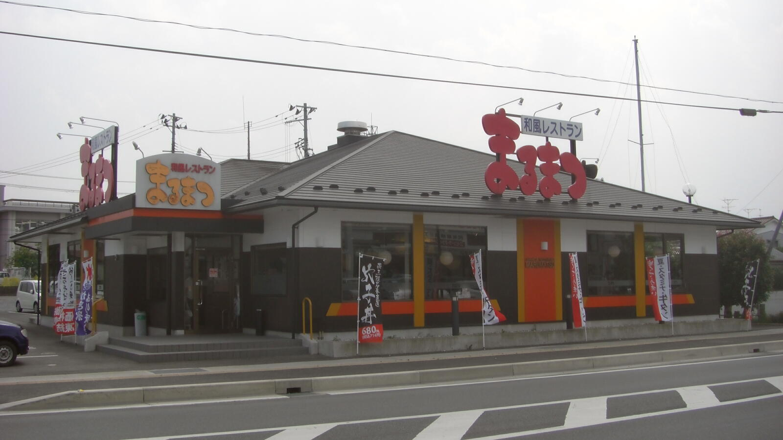 Marumatsu_Haramachi_Shop